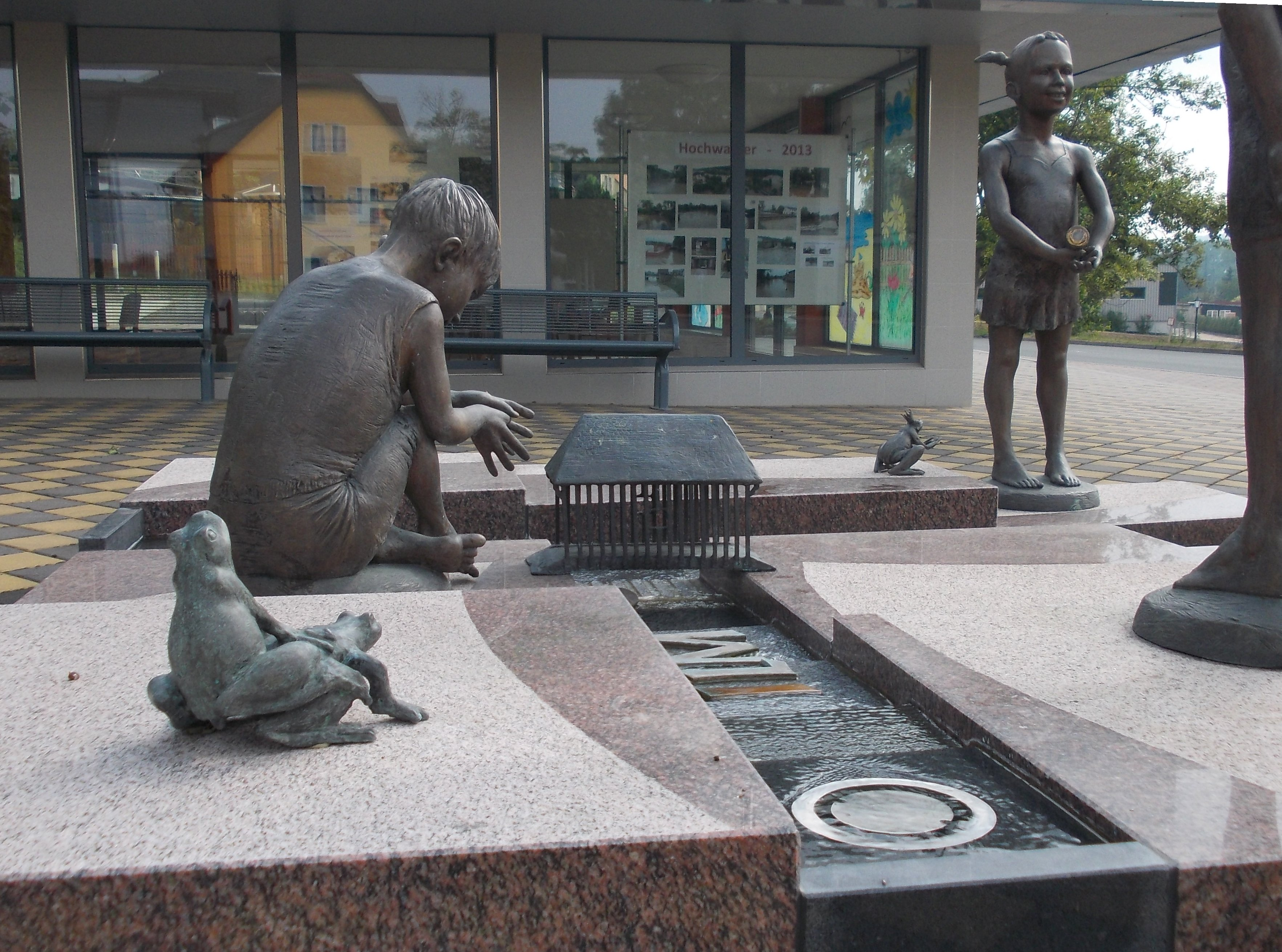 Fountain in Unterneusulza (Grossheringen, district of Weimarer Land, Thuringia), symbolizing the municipality of Grossheringen on the confluence of Ilm and Saale.